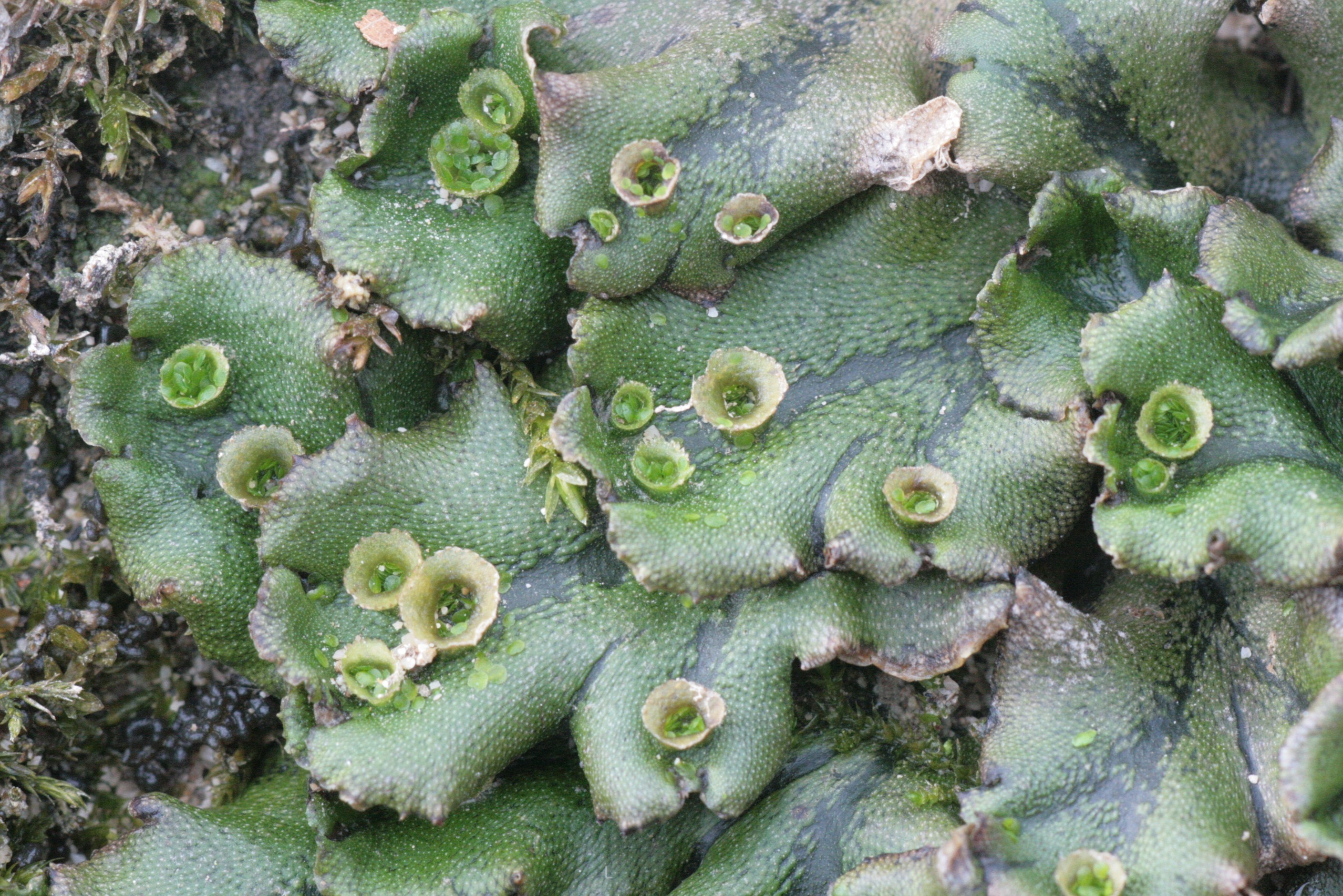 Marchantia polymorpha